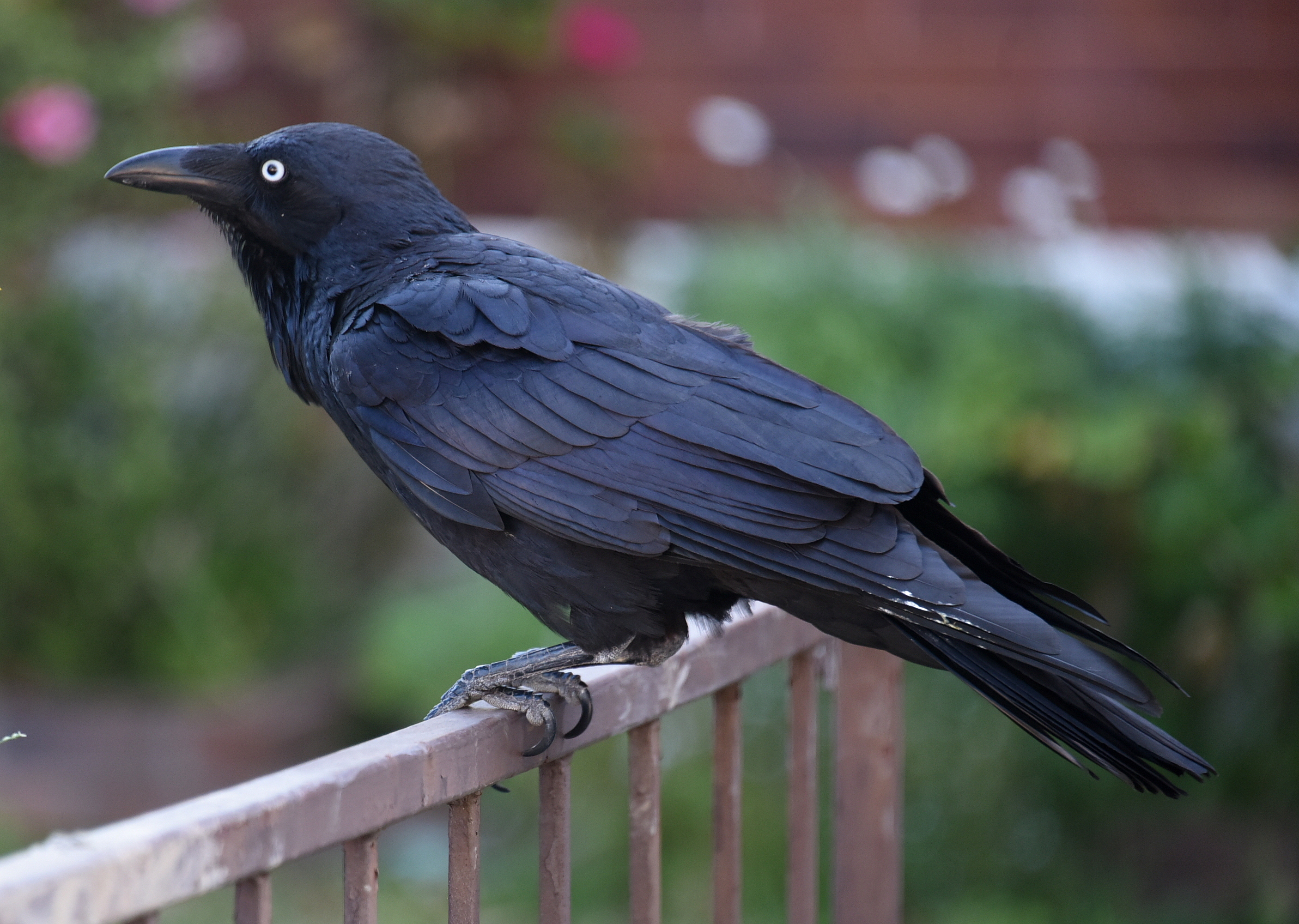 Crow, Chatswood, Sydney